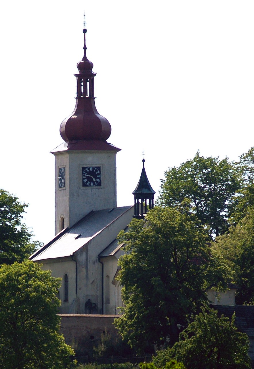 Church of St. Margaret, Kresetice, Czech Republic